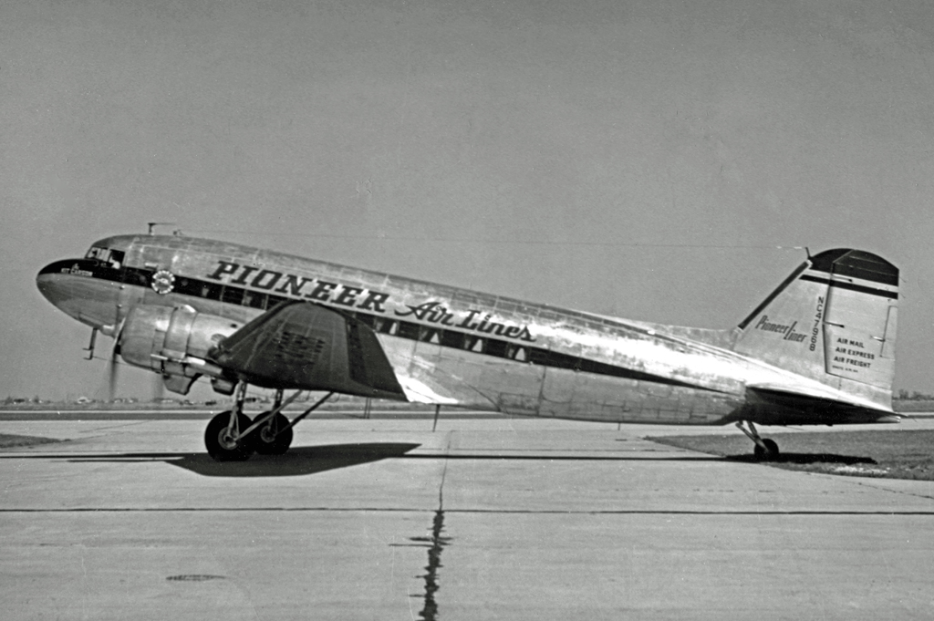 Douglas C-47 (DC-3) of Pioneer Ai Lines